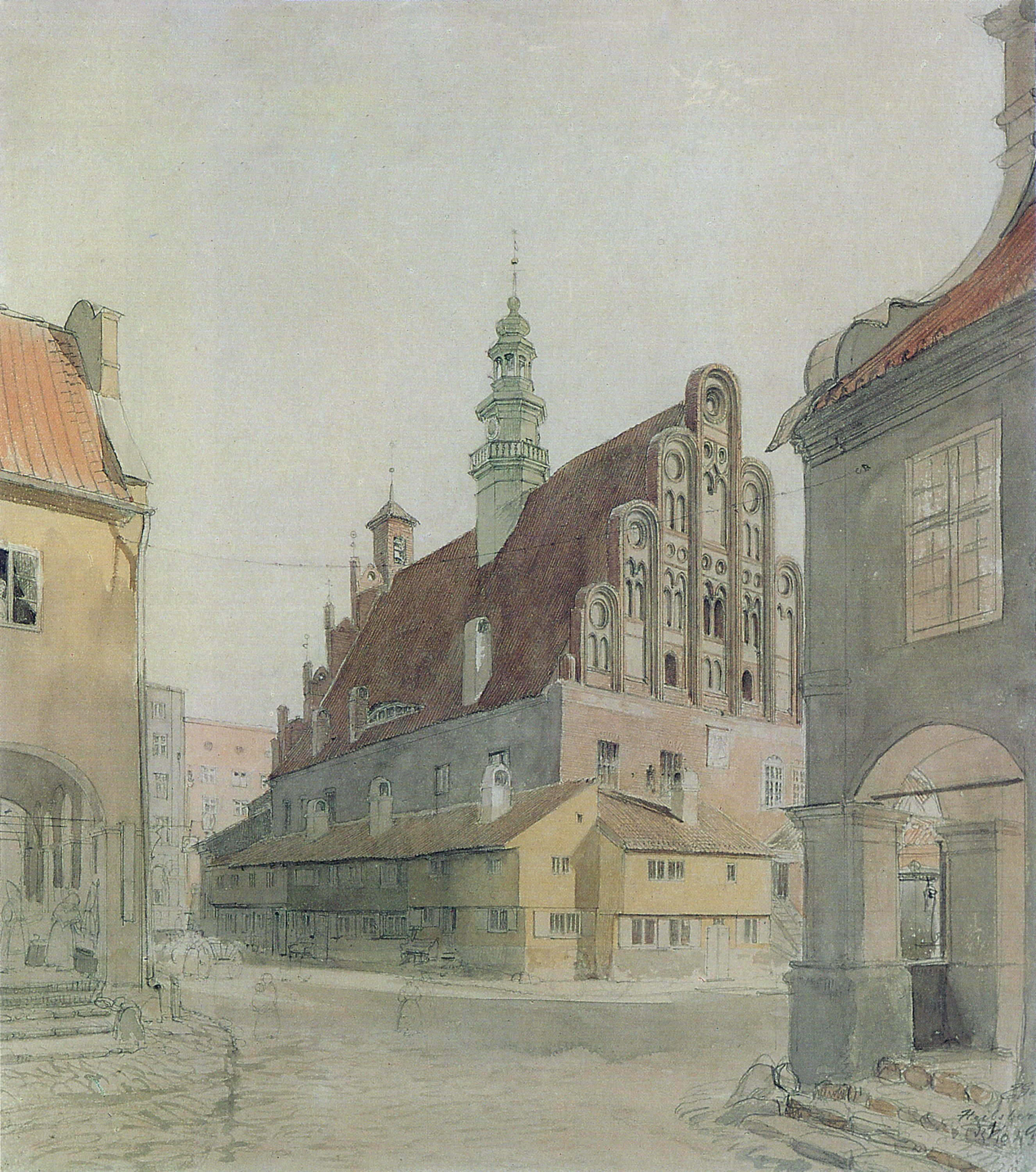 Historic town hall in Lidzbark Warmiński